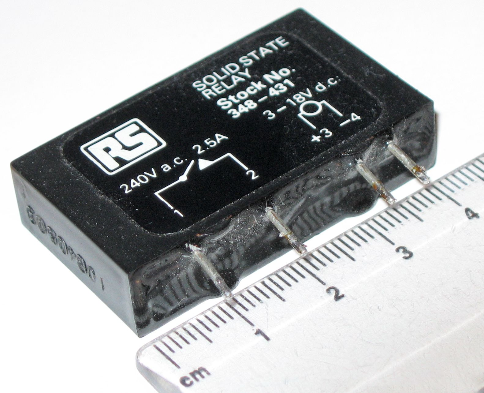 Photograph of a Solid State Relay, supplied by RS. Ruler for scale.